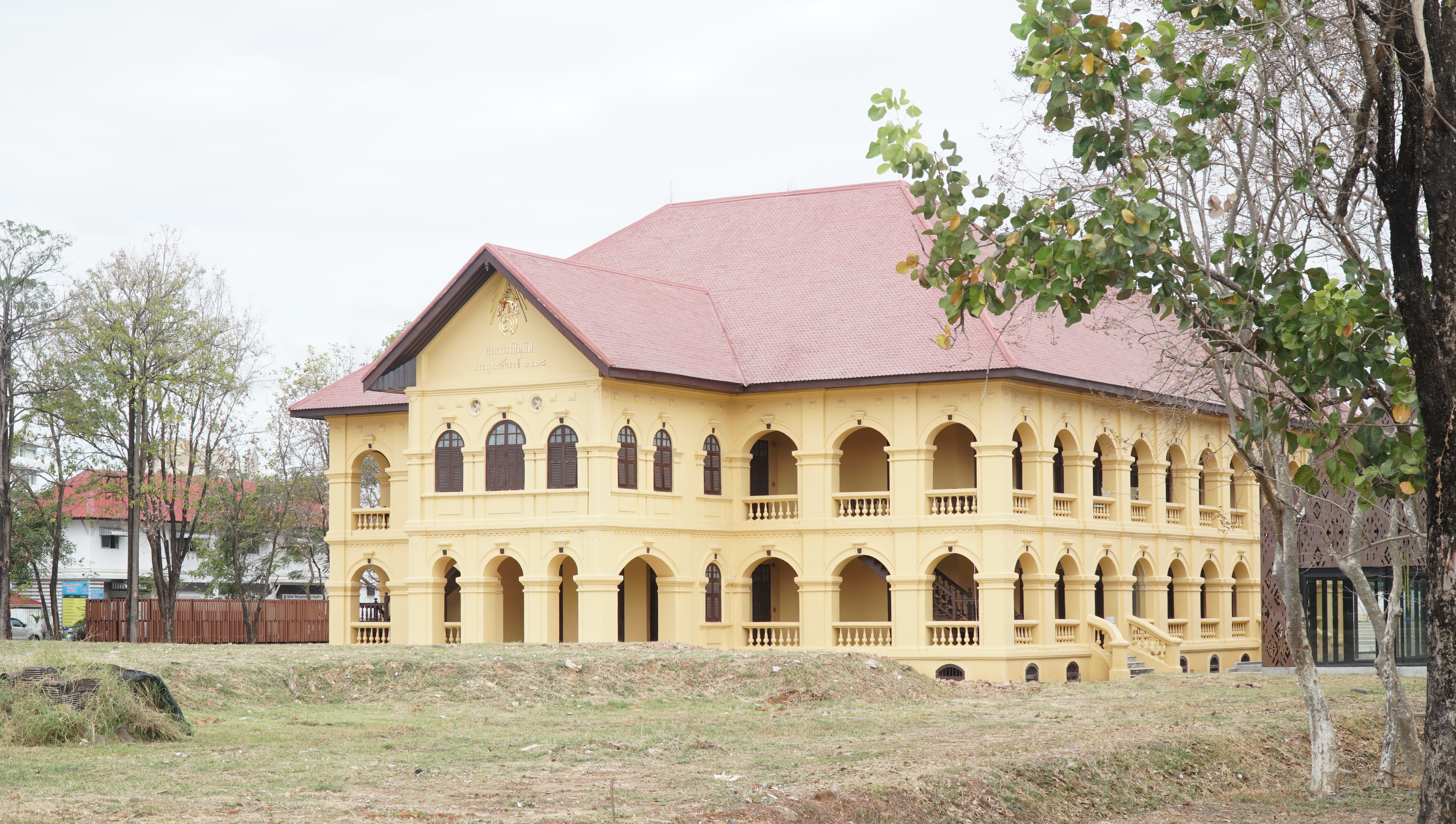 Udon Thani city museum